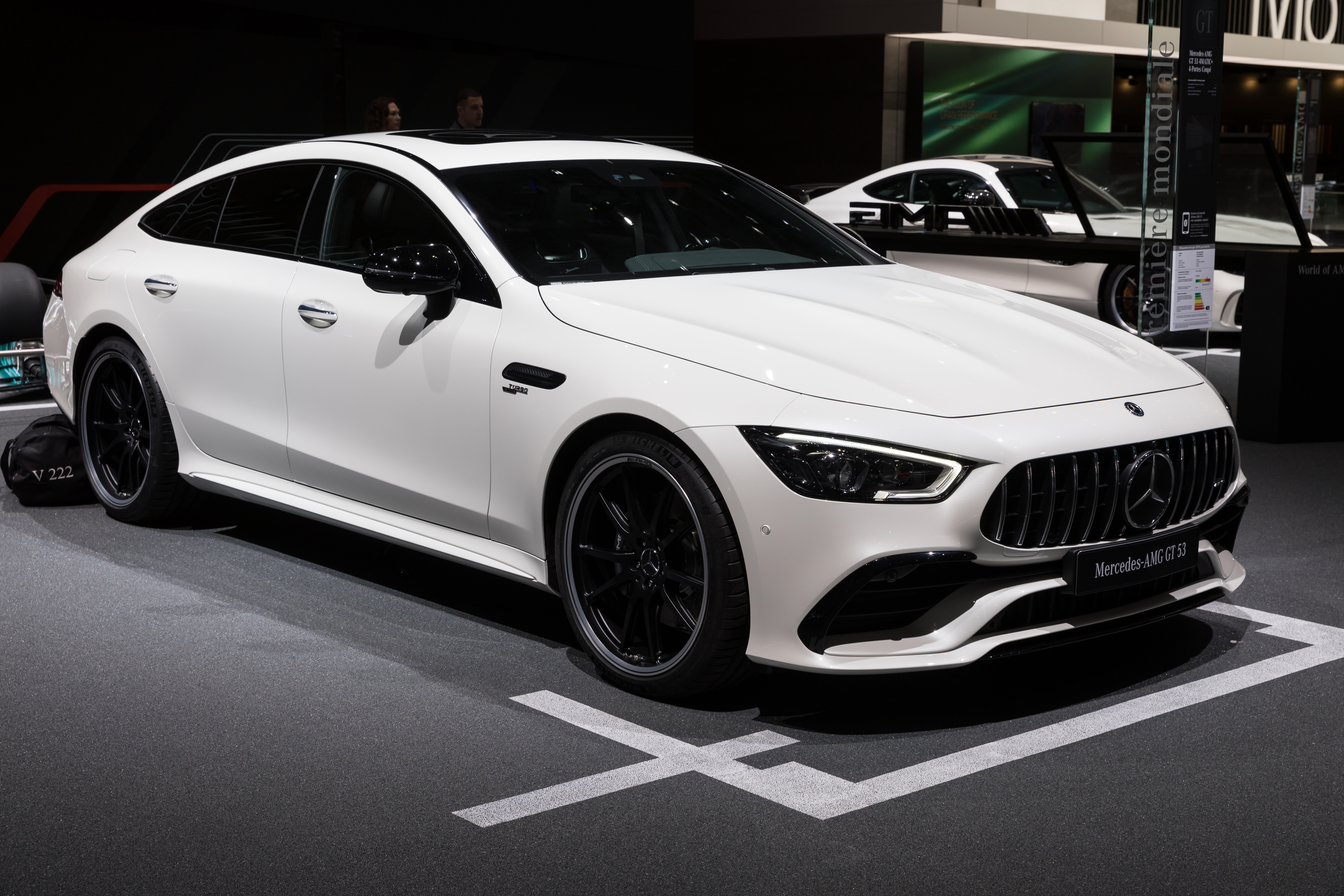 Geneva International Motor Show 2018